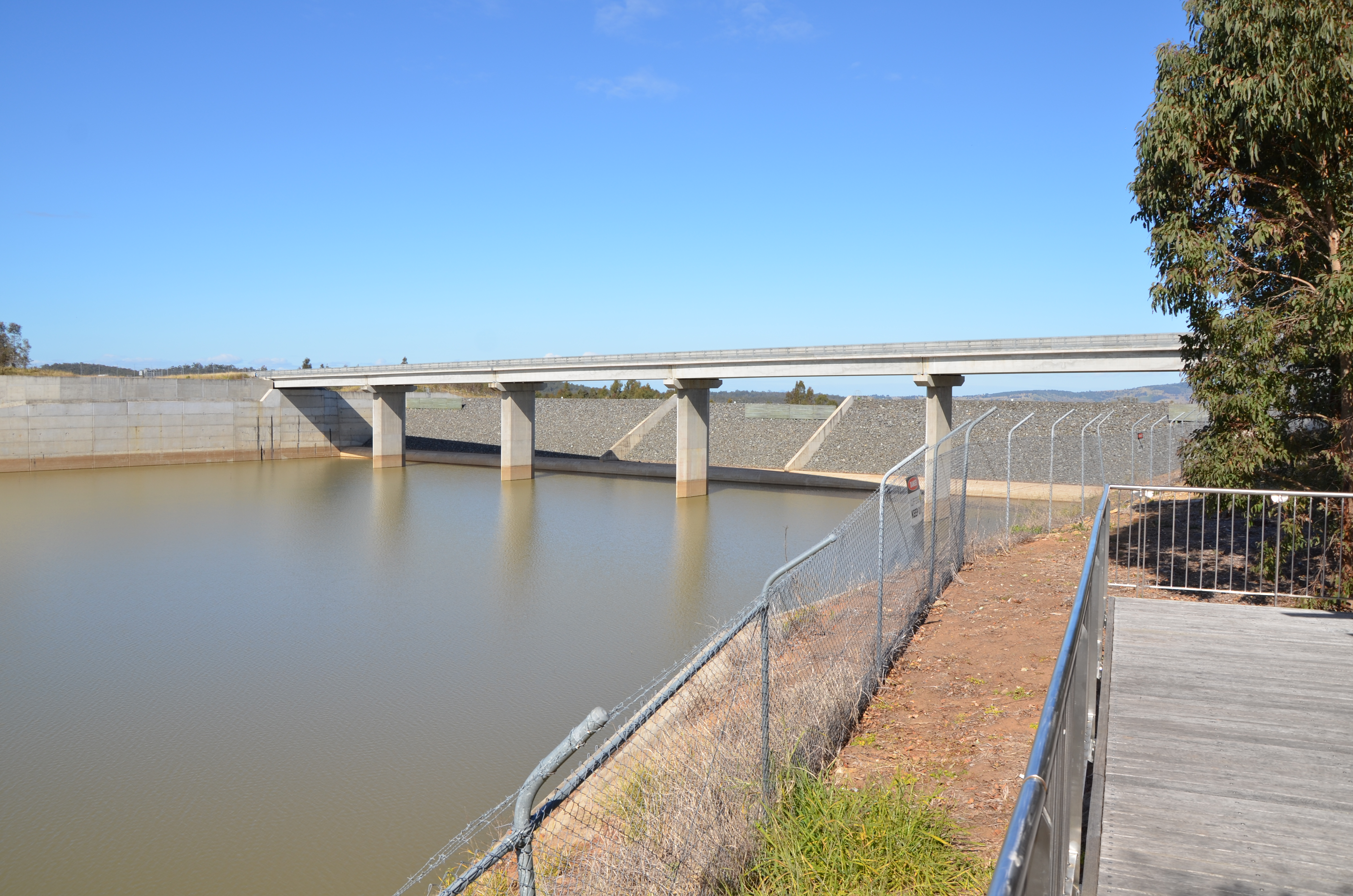 Auxilliary Spillway of Wivenhoe Dam, June 2011.